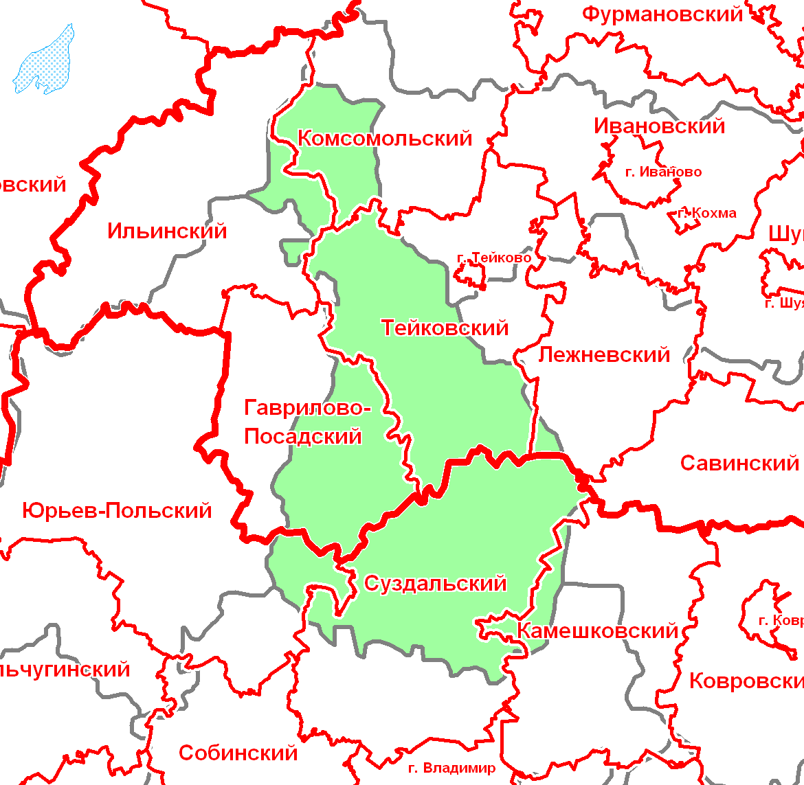 Maps of Vladimir Governorate